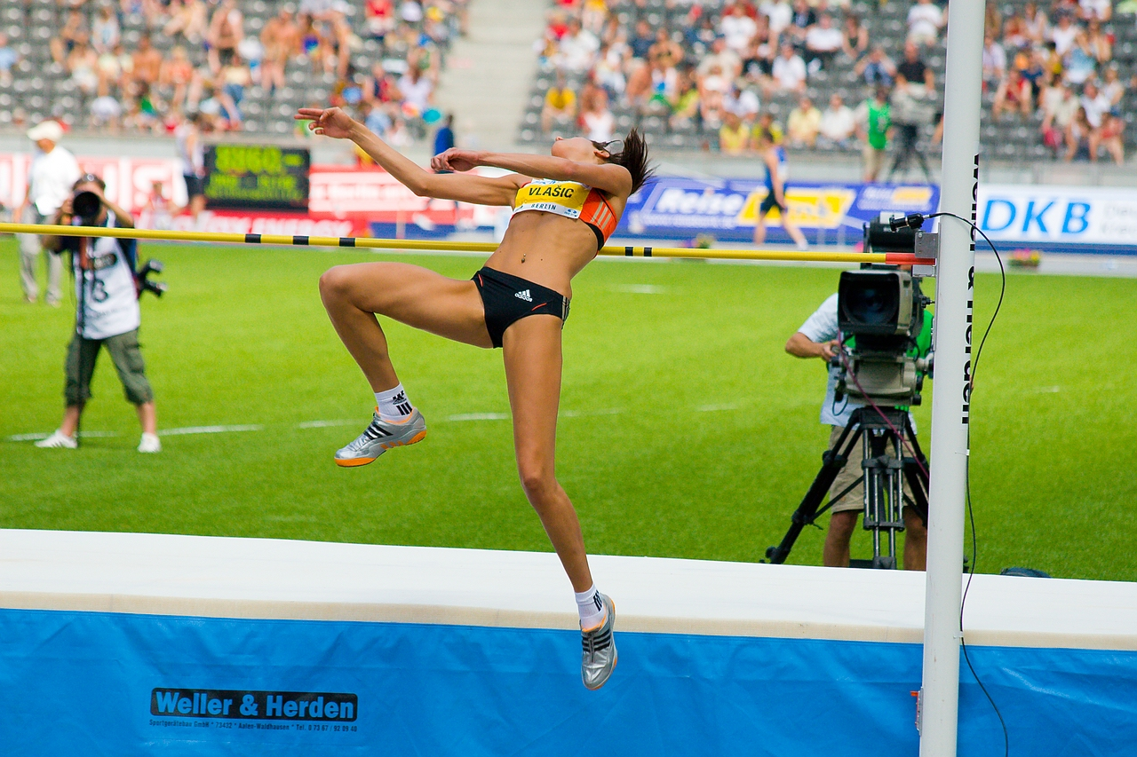 Blanka Vlašić at the 2008 ISTAF in Berlin